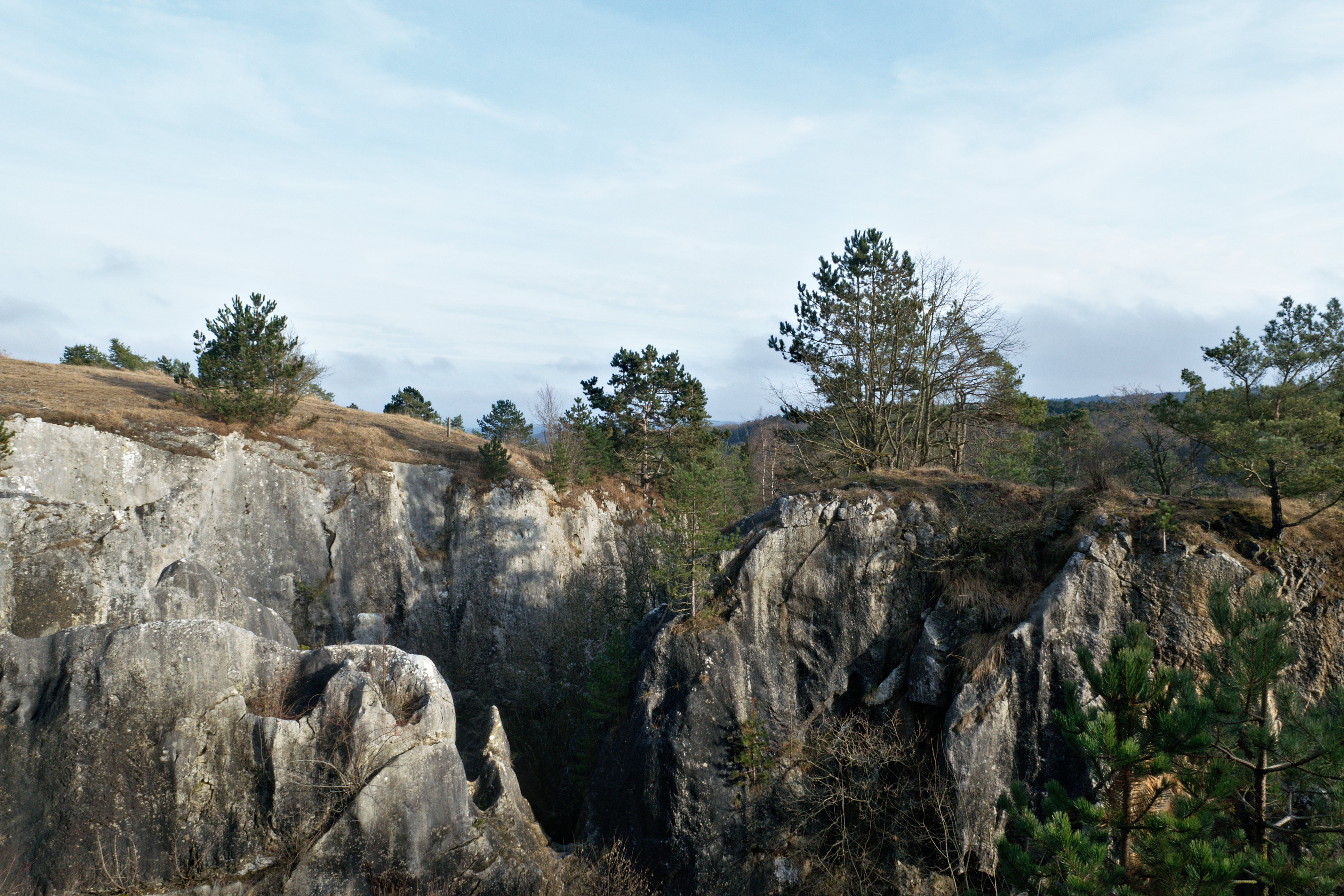 Fondry des Chiens in Viroinval, Belgium (seen during "La Grande Traversée de la Forêt du Pays de Chimay" hike)